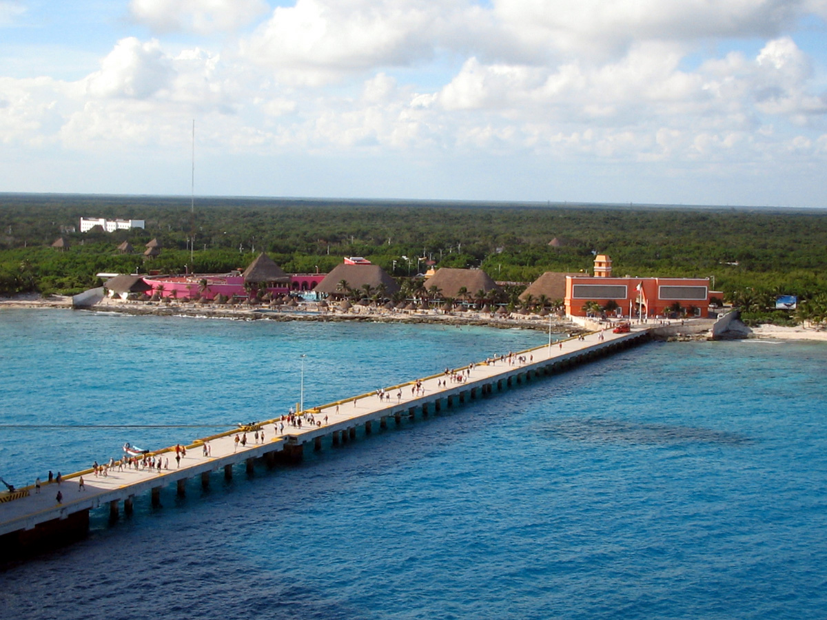 This photograph of Costa Maya, Mexico, was taken from the Carnival Victory cruiseship docked at the end of the resort's pier. The image was taken in January 2006, and shows the entire resort area, including the administration building, several bars, swimming pool, beach, and shops selling ubiquitous souvenirs. The nearby village of Mahahual is off the left of the image. Both the resort and the pier would be destroyed by Category 5 hurricane Dean's passage through the Yucatan in 2007, though they both were rebuilt. Taken by NormanEinstein, January 3, 2006 at Costa Maya, Mexico.